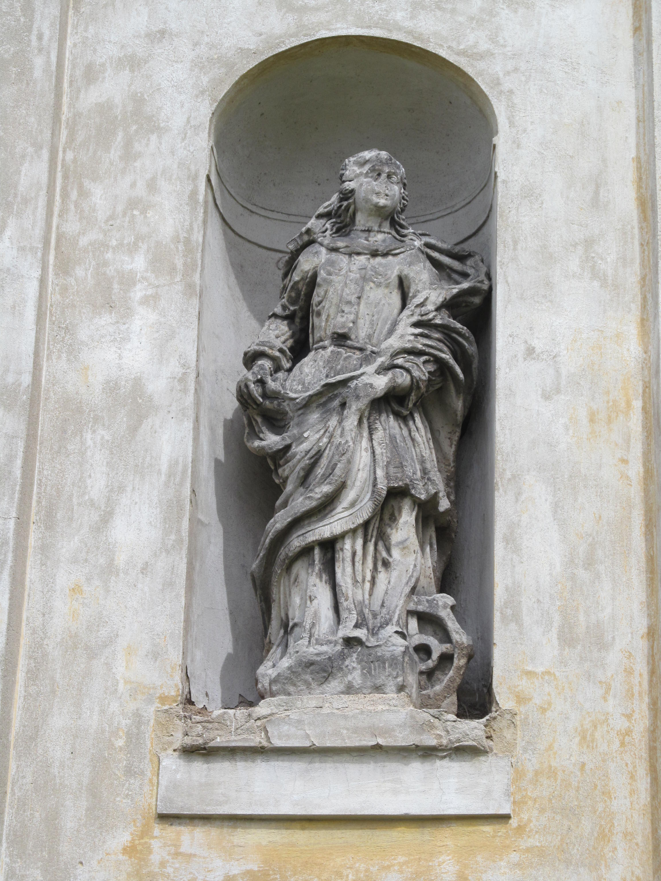 Statue of St. Catherine on frontage of the church in Bořislav